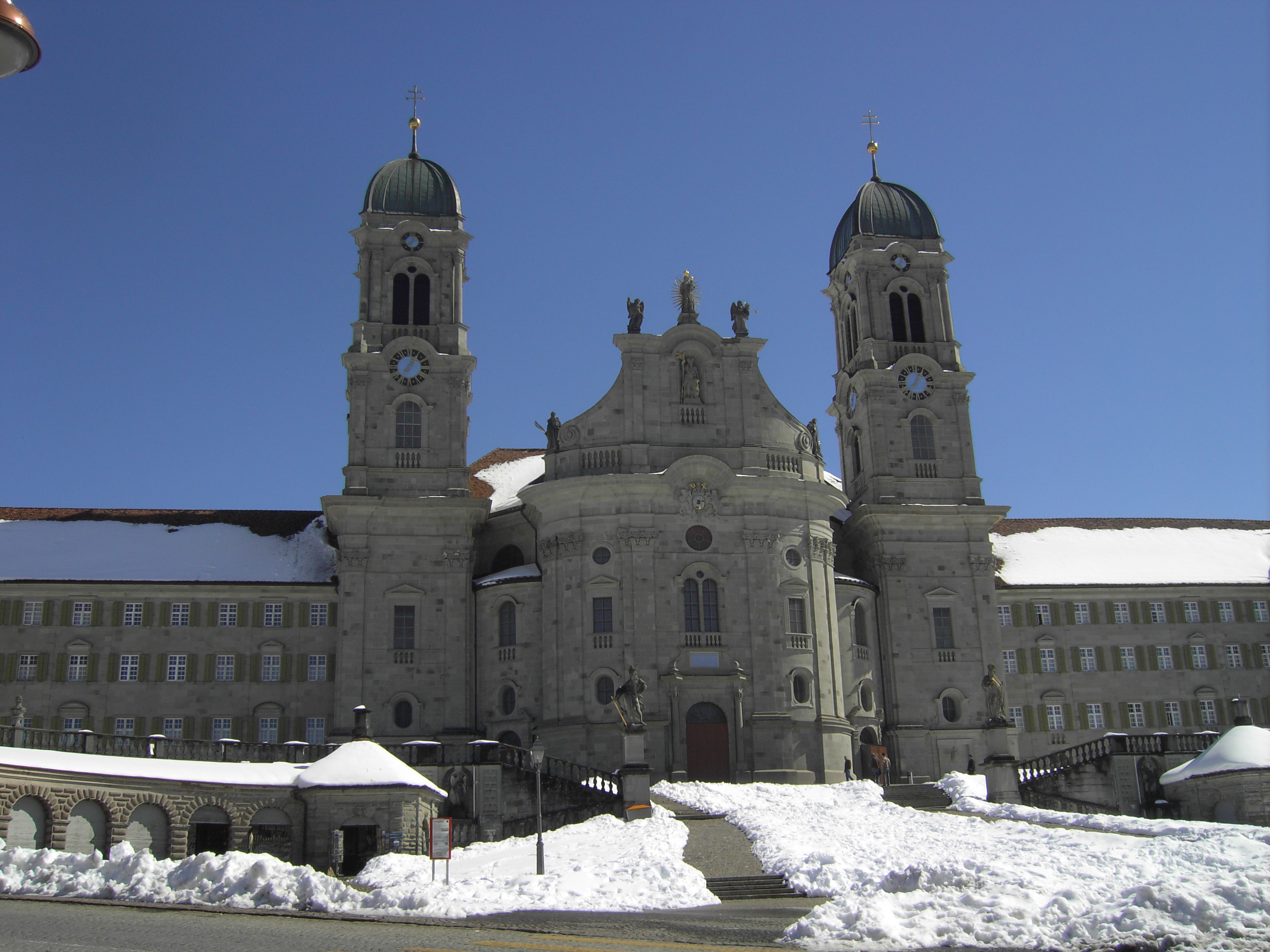 Church of Abbey Einsiedeln SZ in Switzerland in the winter